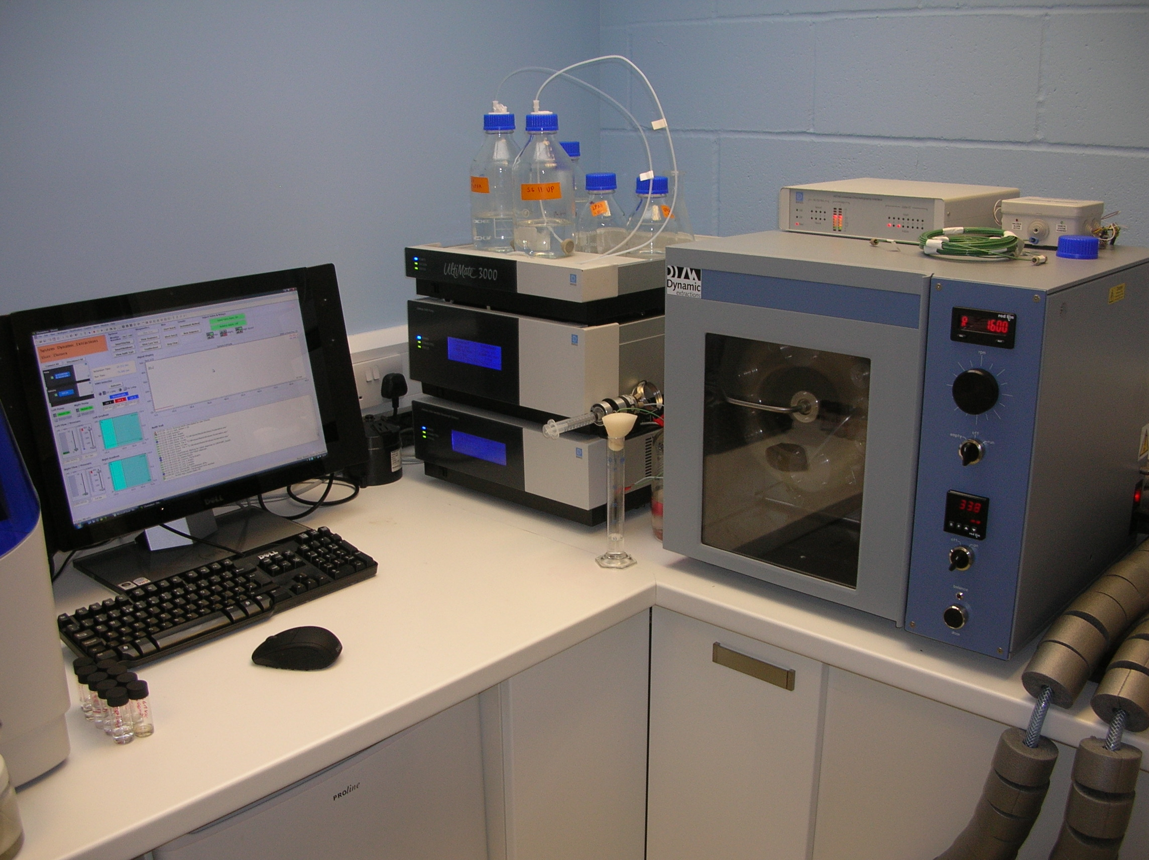 system HPCCC